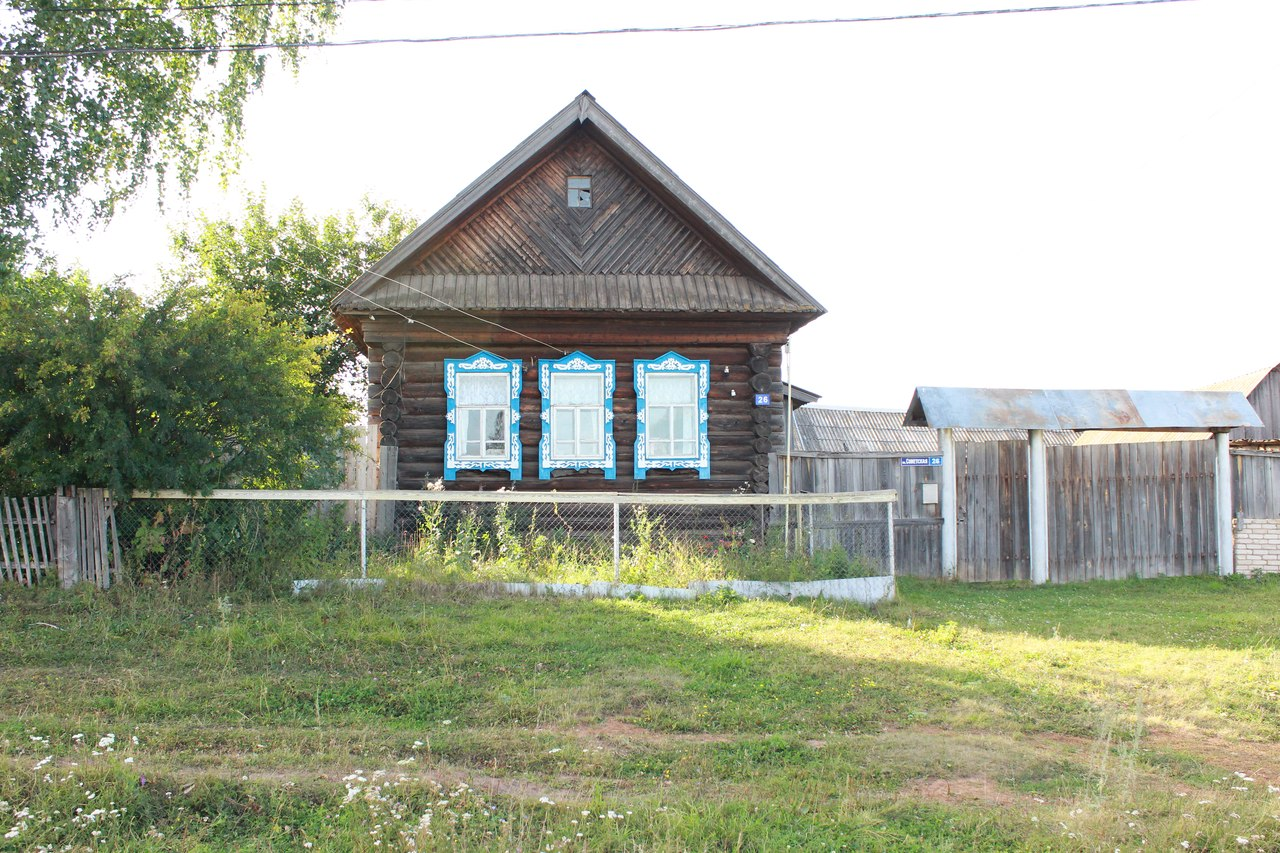 Wooden house in Kechevo (Malopurginsky District).